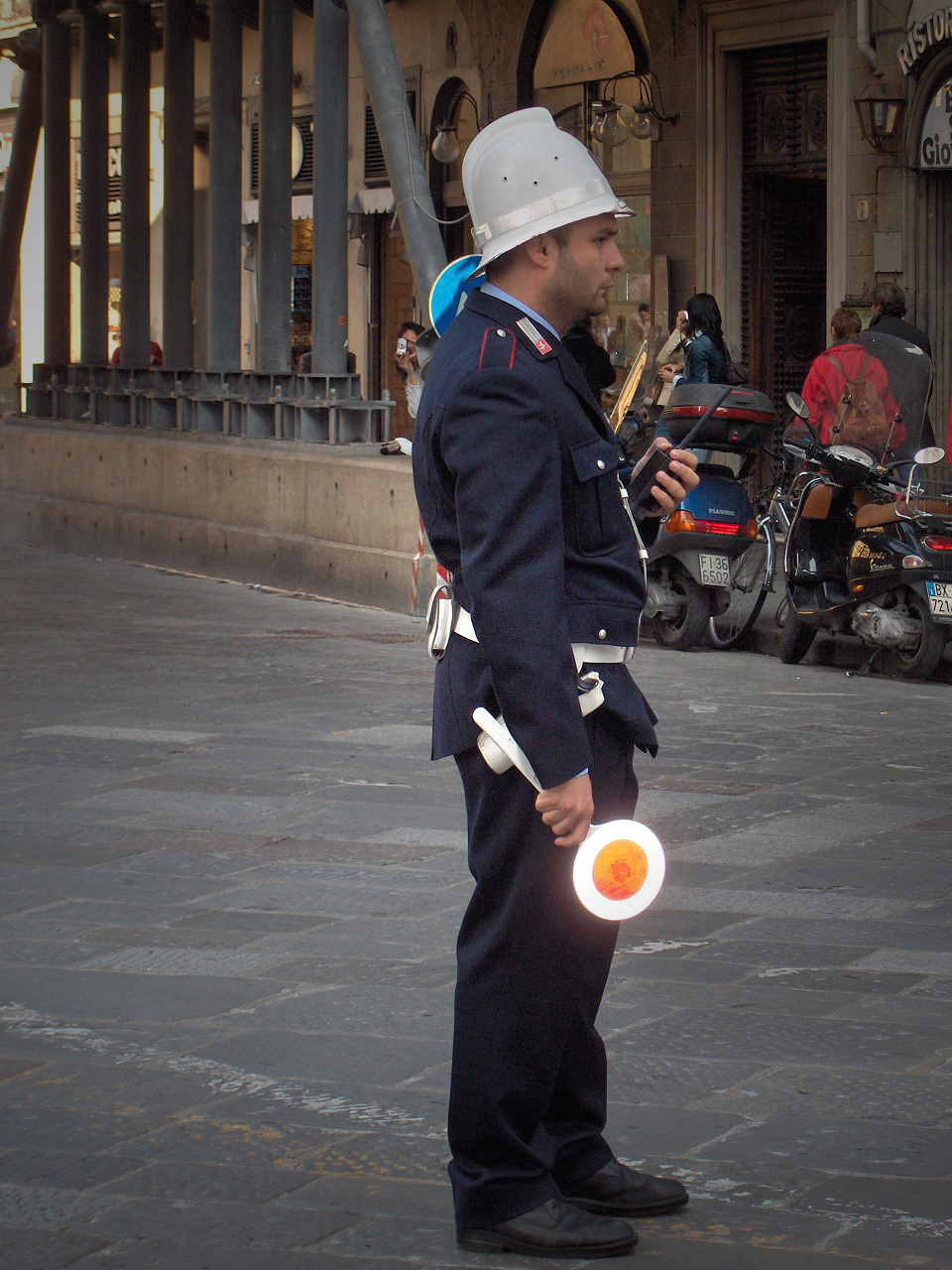 Traffic police; Florence, Italy Own photo - photo made on 12 october 2005